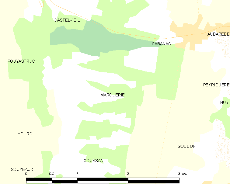 Map of French municipality